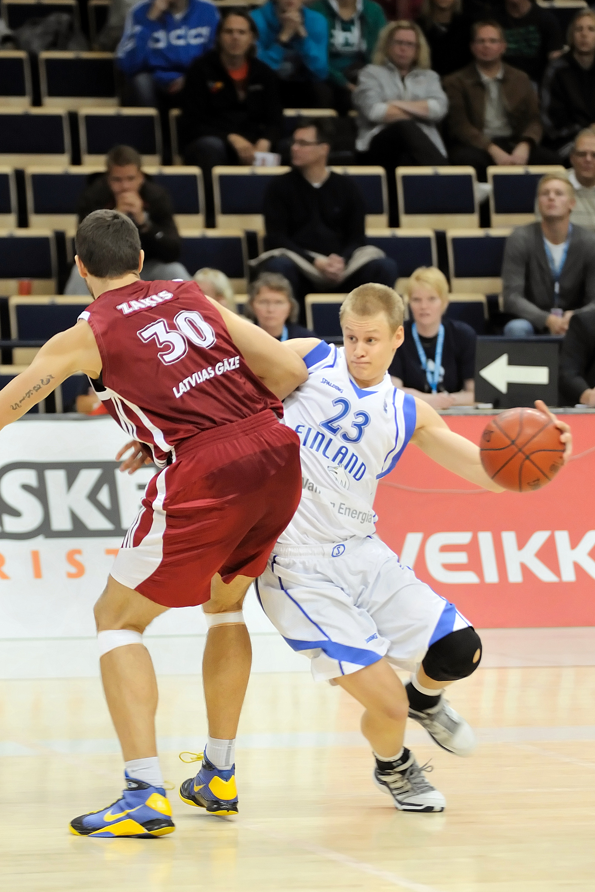 Finnish basketball player Sasu Salin playing against Latvia at Energia Areena in Vantaa, Finland.